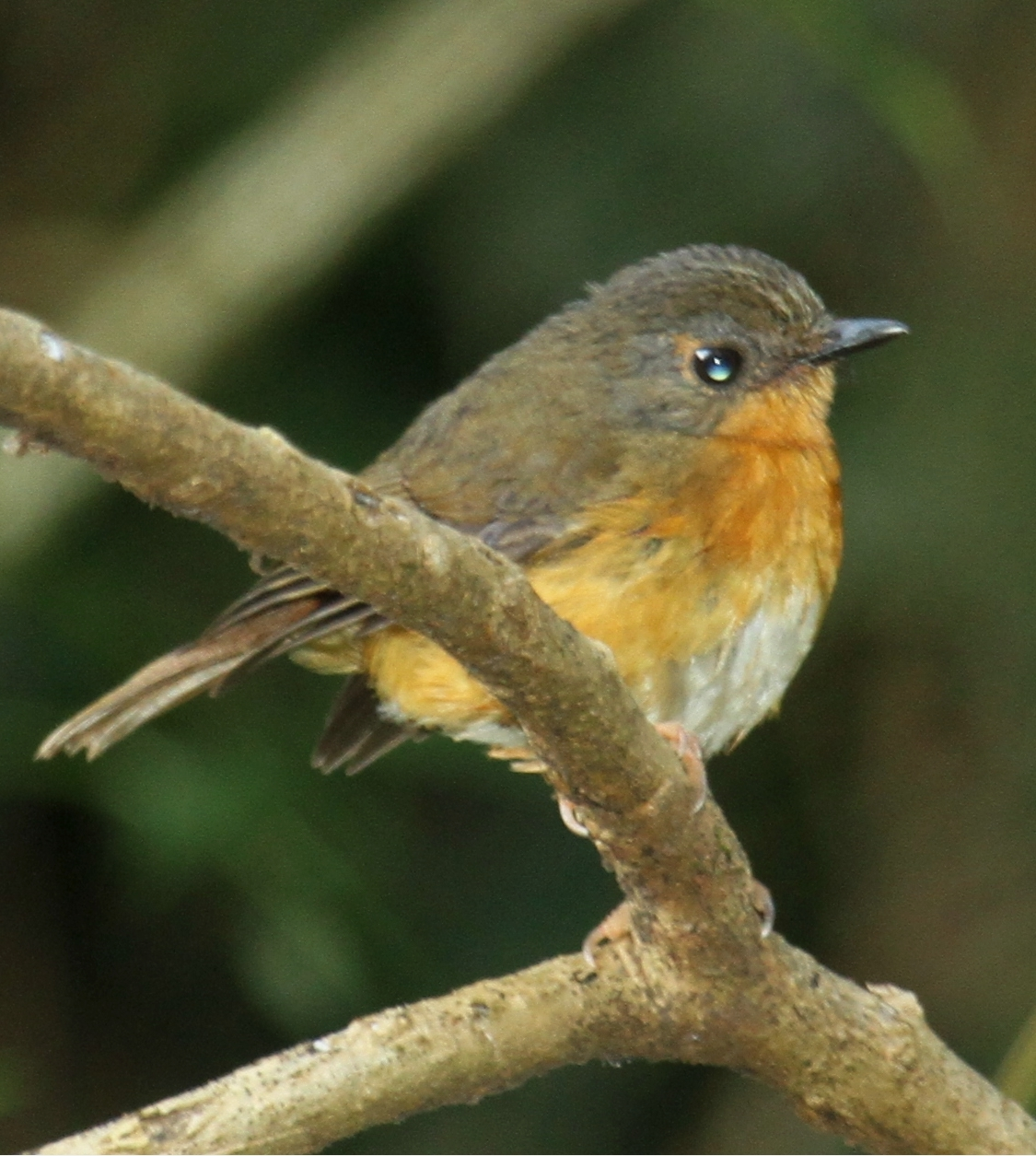 Kakamega Forest - Kenya flash photo